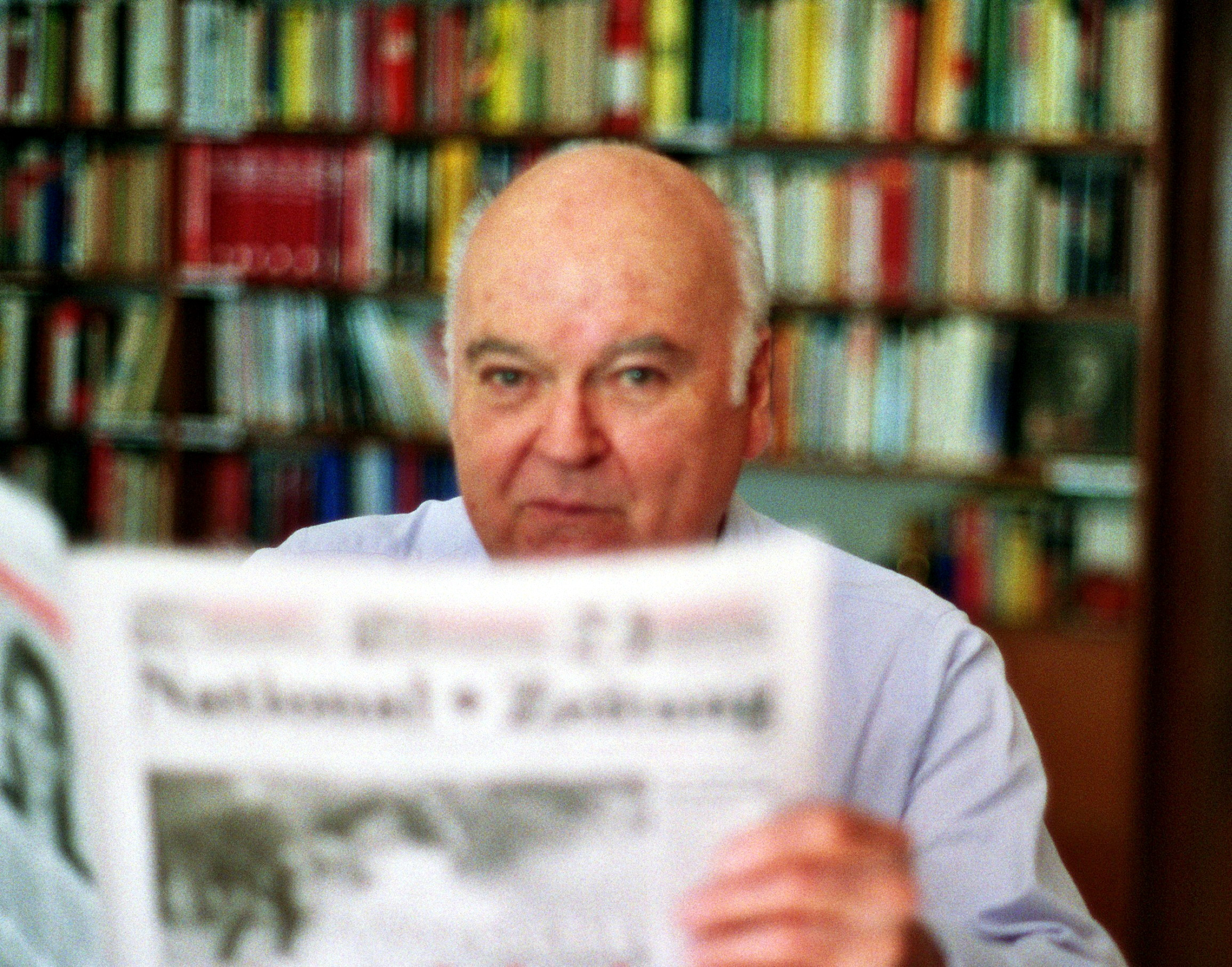 Gerhard Frey, editor of the National-Zeitung, Munich, Germany, on Sept. 22nd, 2009